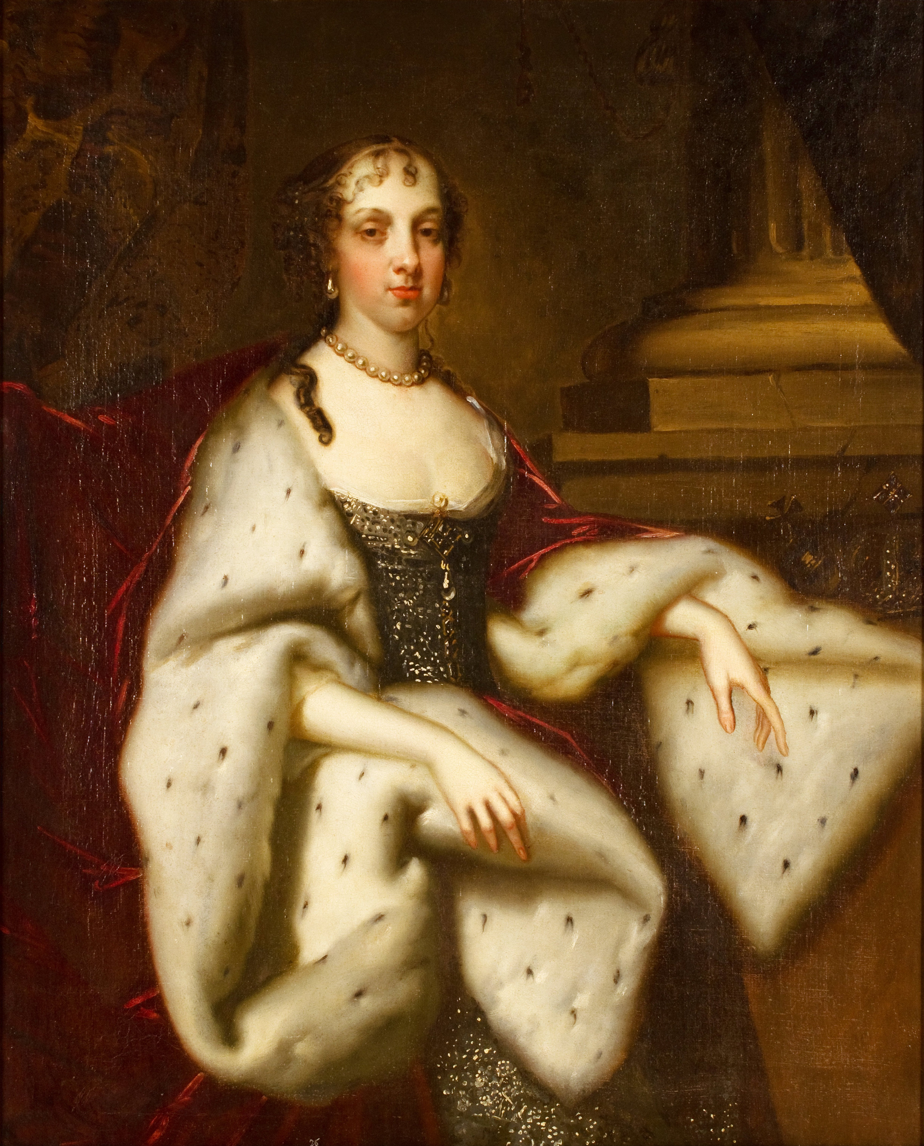 Portrait of Catherine of Braganza, Queen of England, by Sir Peter Lely (17th century, third quarter). National Palace of Sintra.